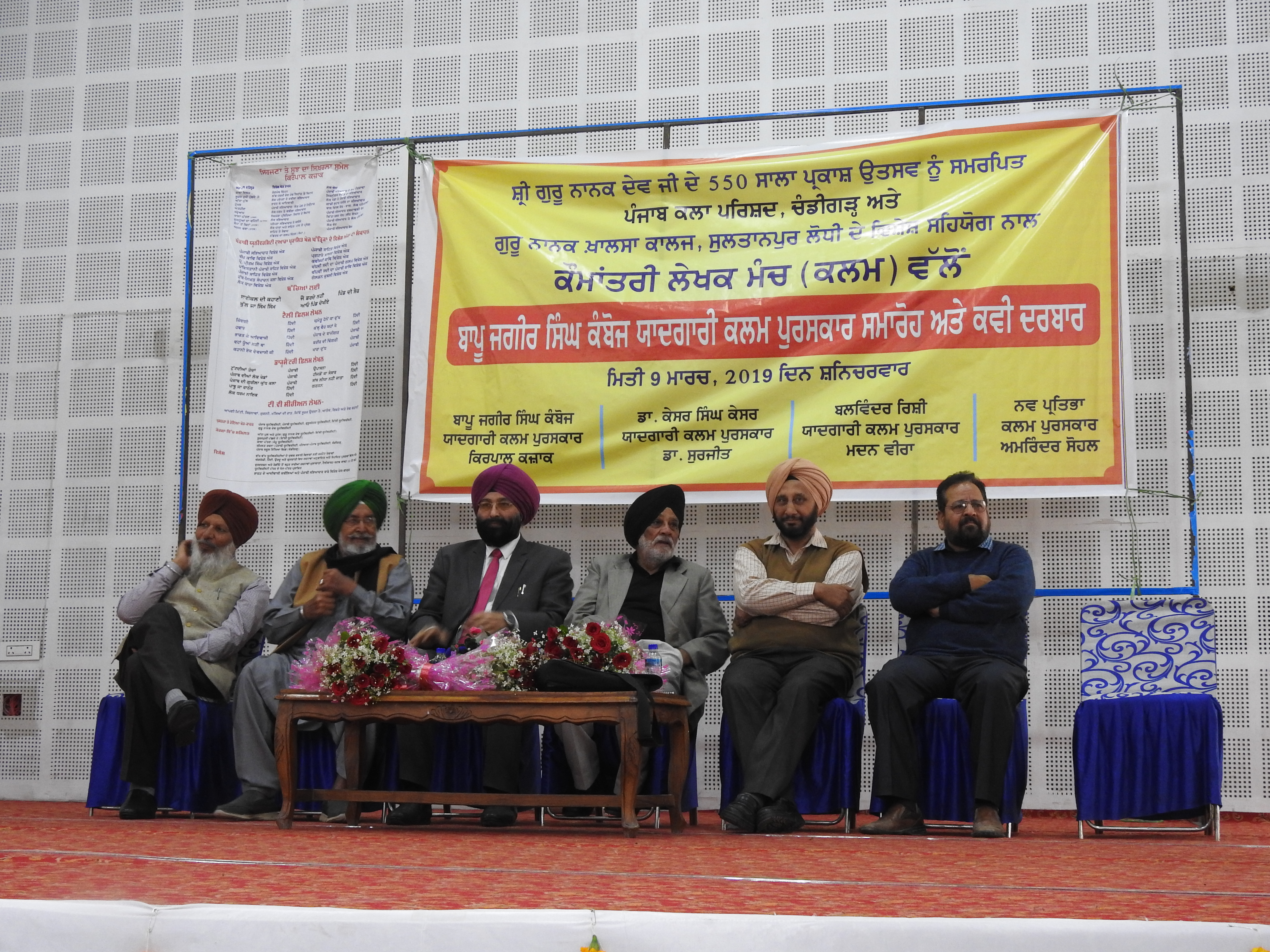 Kaumantari Lekhak Manch (Kalam), literary NGO's annual function 2019.It is a Phagwara based literary organisation working since 2004